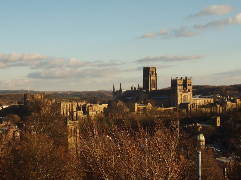 Durham Cathedral and Castle (seen from the railway station, 6th March 2005)